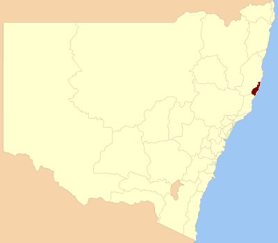 Location of the New South Wales Legislative Assembly electoral district within New South Wales. Reference: [1]